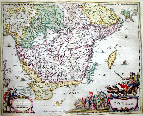 Title: "Gothia". Subject: 1635 map showing the province divisions of Southern Scandinavia. Note Scania.